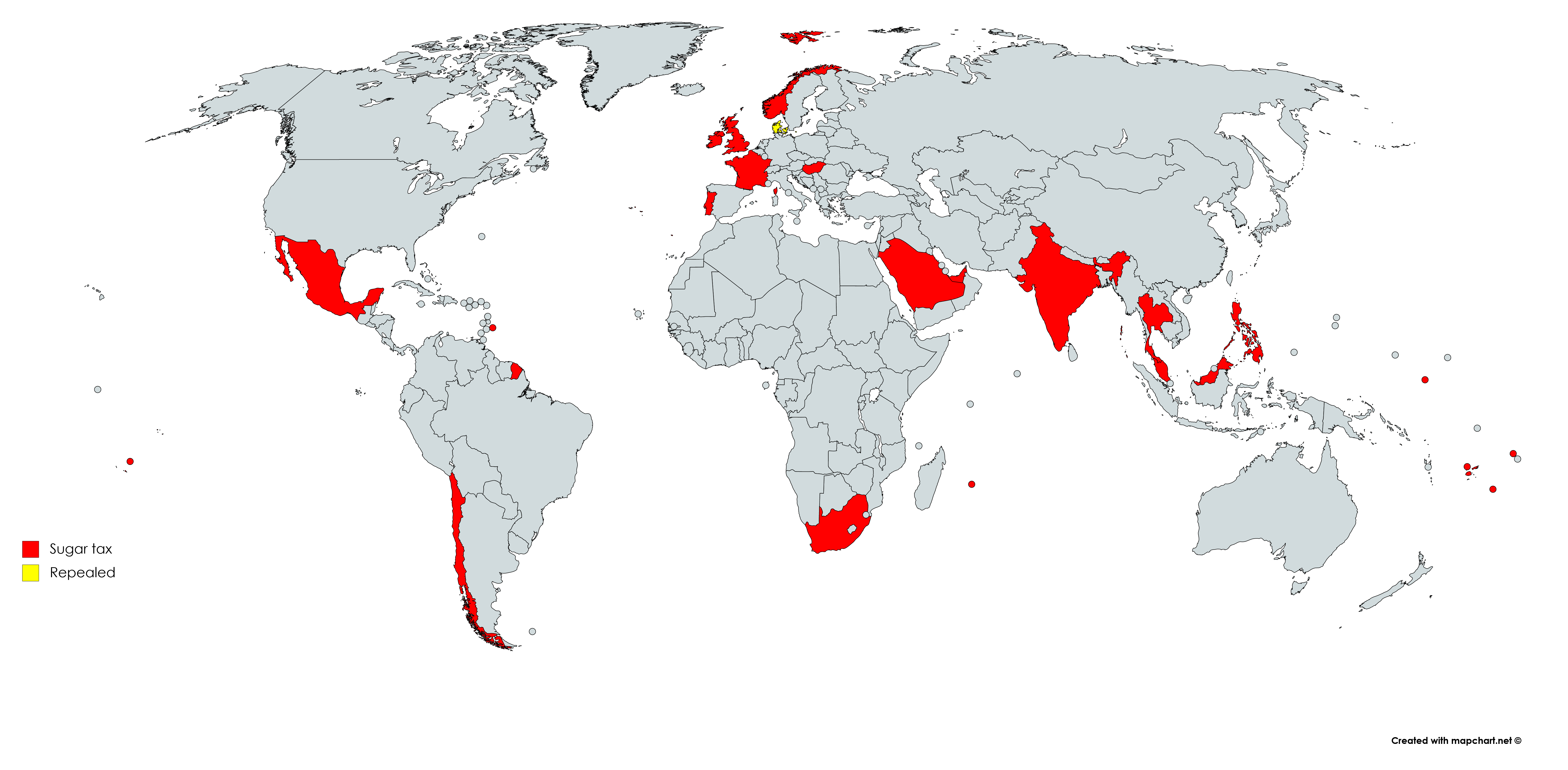 A map of countries that have a sugary drink tax